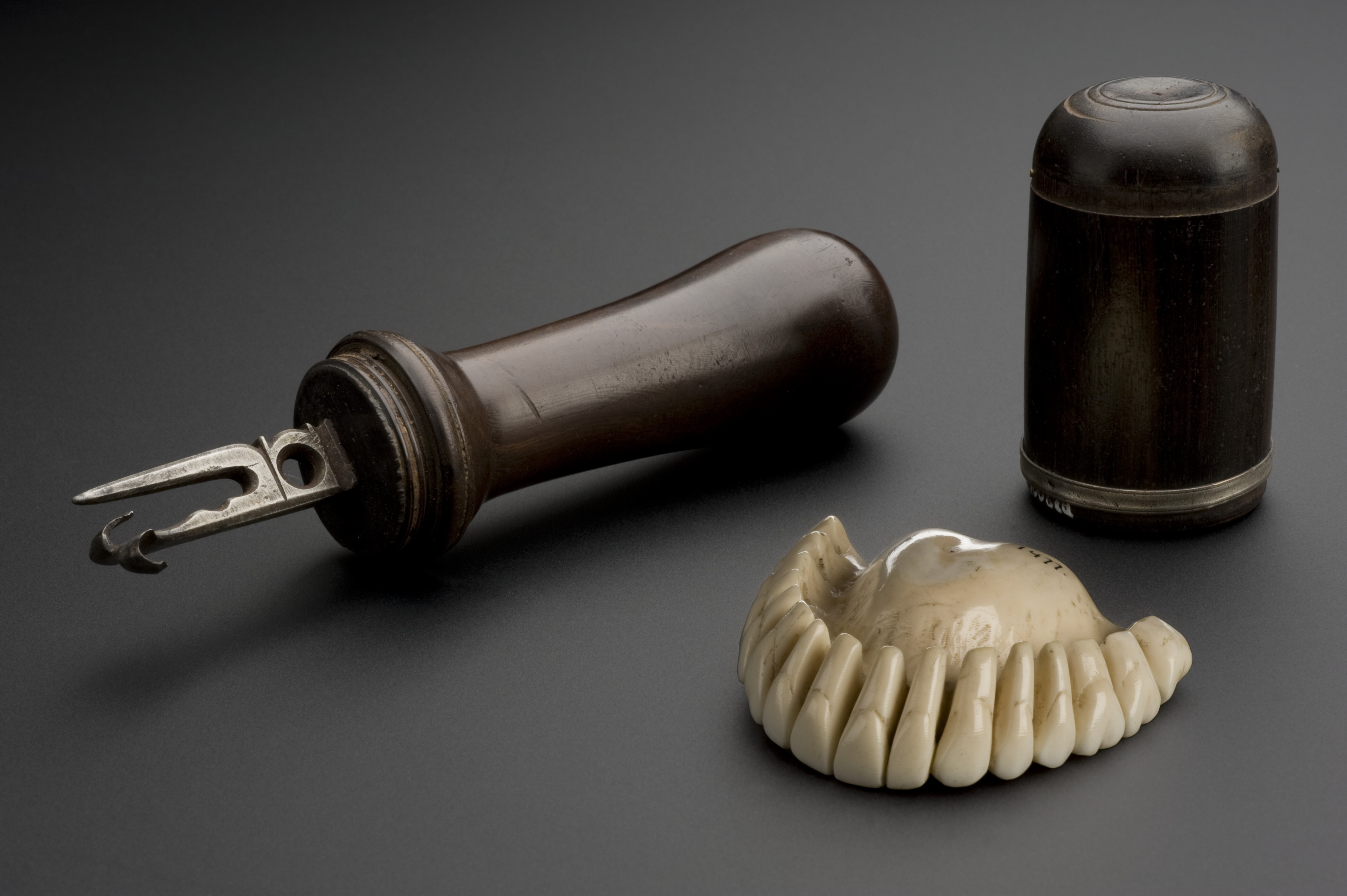 Different tools were used to make dentures, including saws and polishers. This tool would have been used to carve marks in the dentures to create the appearance of individual teeth. Dentures of this period were made from a small range of materials, including ivory. This example was carved from hippopotamus ivory and would have been expensive. Ivory was difficult to clean and over time began deteriorate and smell quite unpleasant. The tool is shown here with a denture made from hippopotamus ivory (A600140). maker: Unknown maker Place made: Europe Wellcome Images Keywords: denture; carving tool